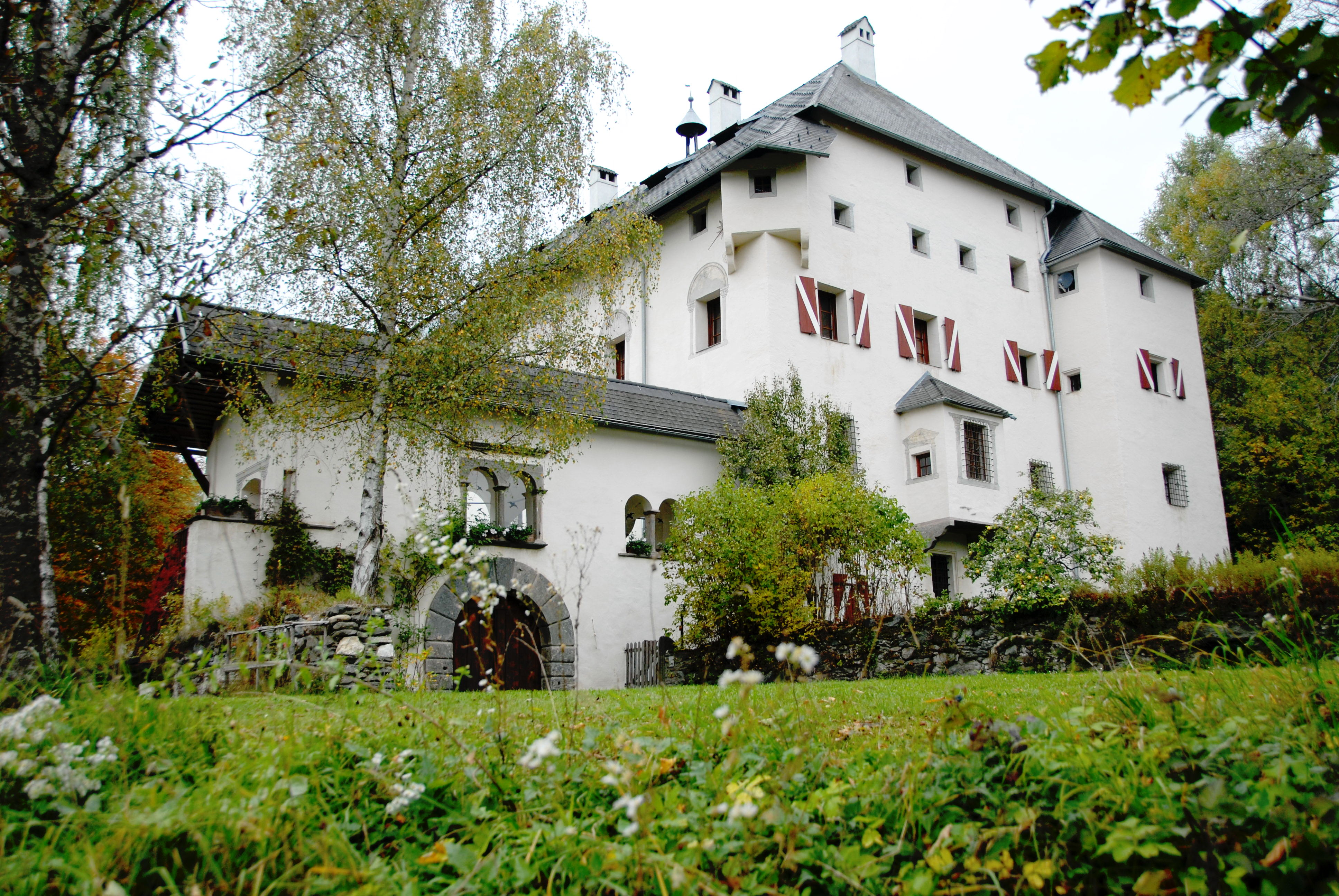 Castle Bach, municipality Sankt Urban, district Feldkirchen, Carinthia, Austria